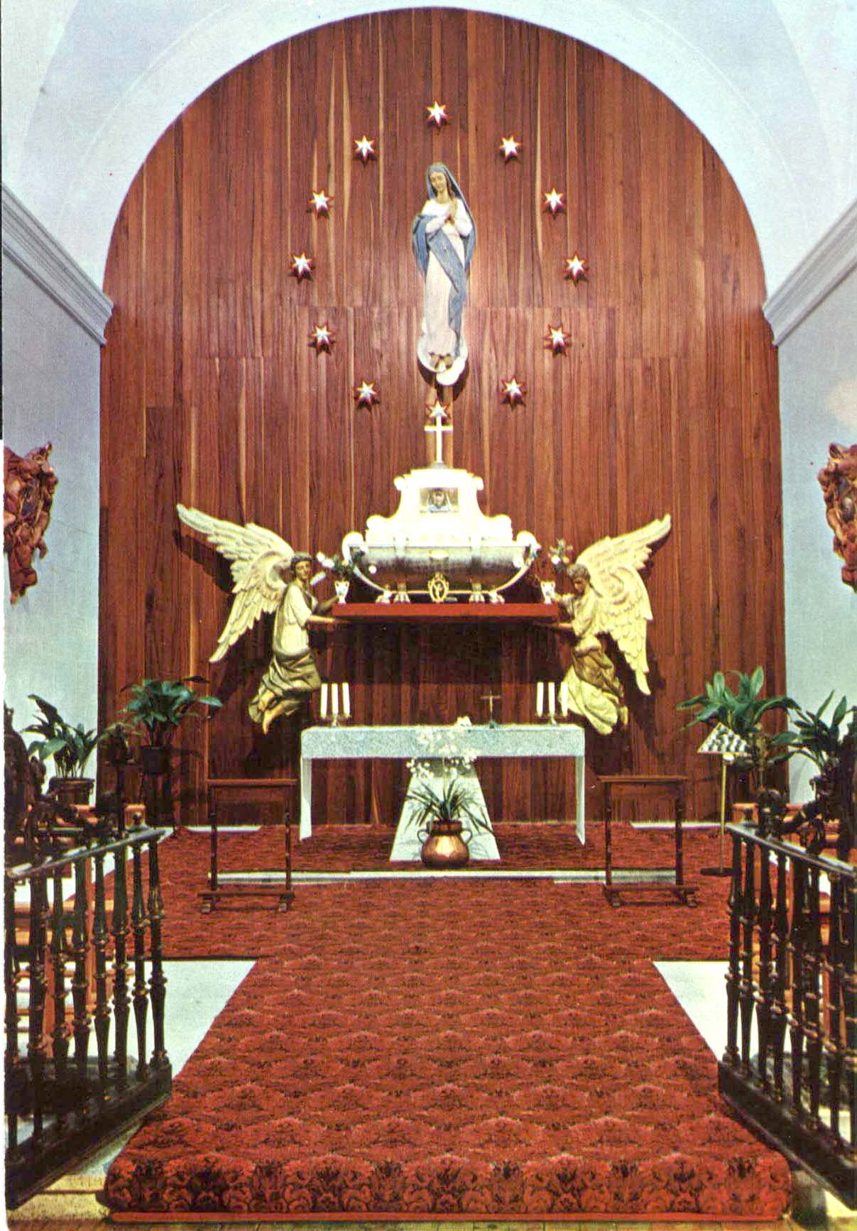 Tomb of Saint Beatrix da Silva, in Conception Convent at Toledo, Spain.